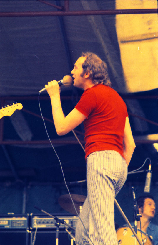 Roger Chapman (singing with Streetwalkers) at Hyde Park concert, London, 1974